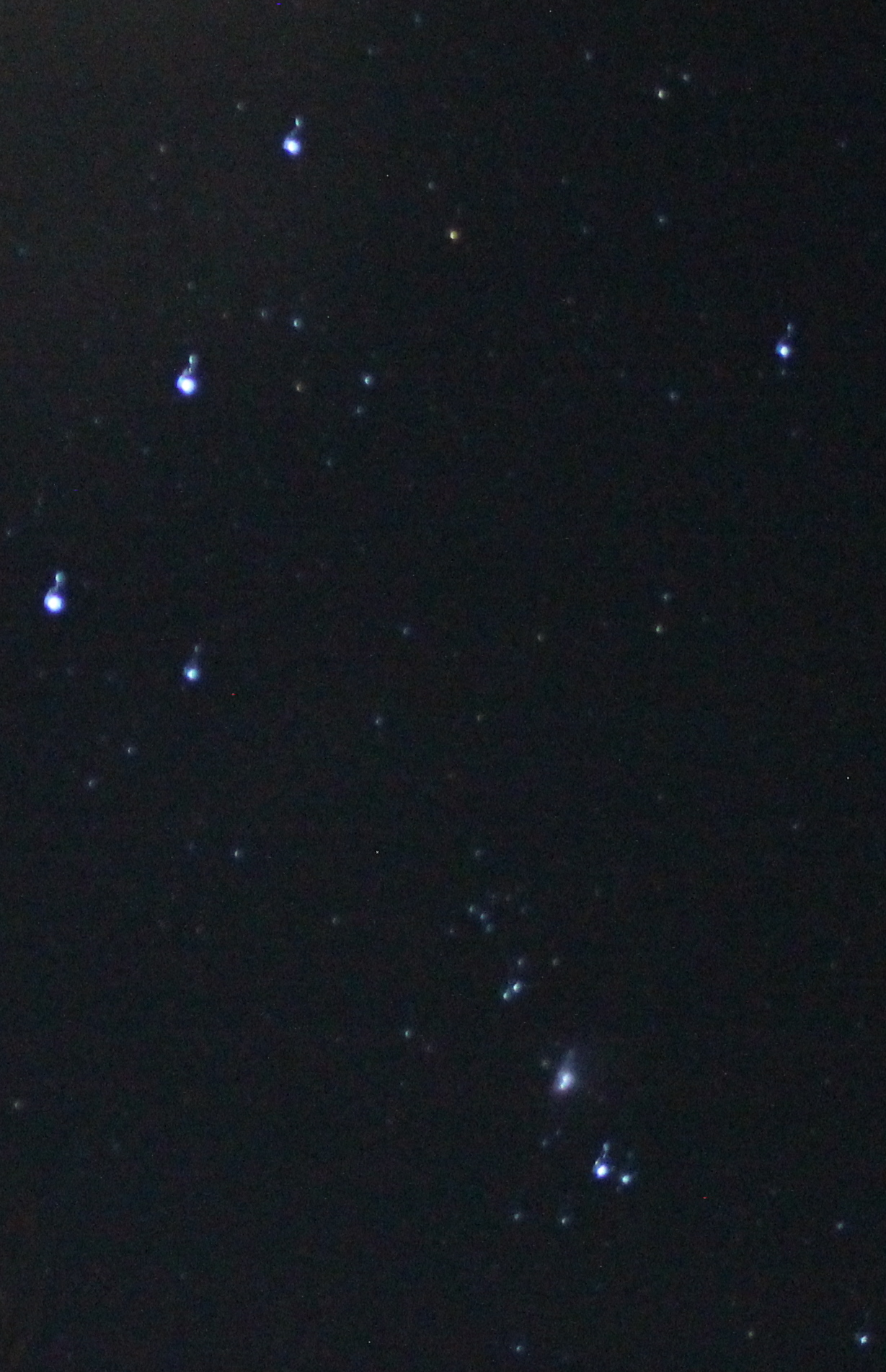 This is a photo of the Orion Nebula taken on the 16th of Janurary 2016